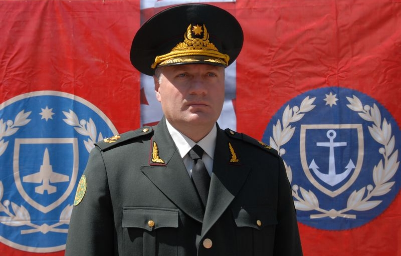 BG ZAZA GOGAVA